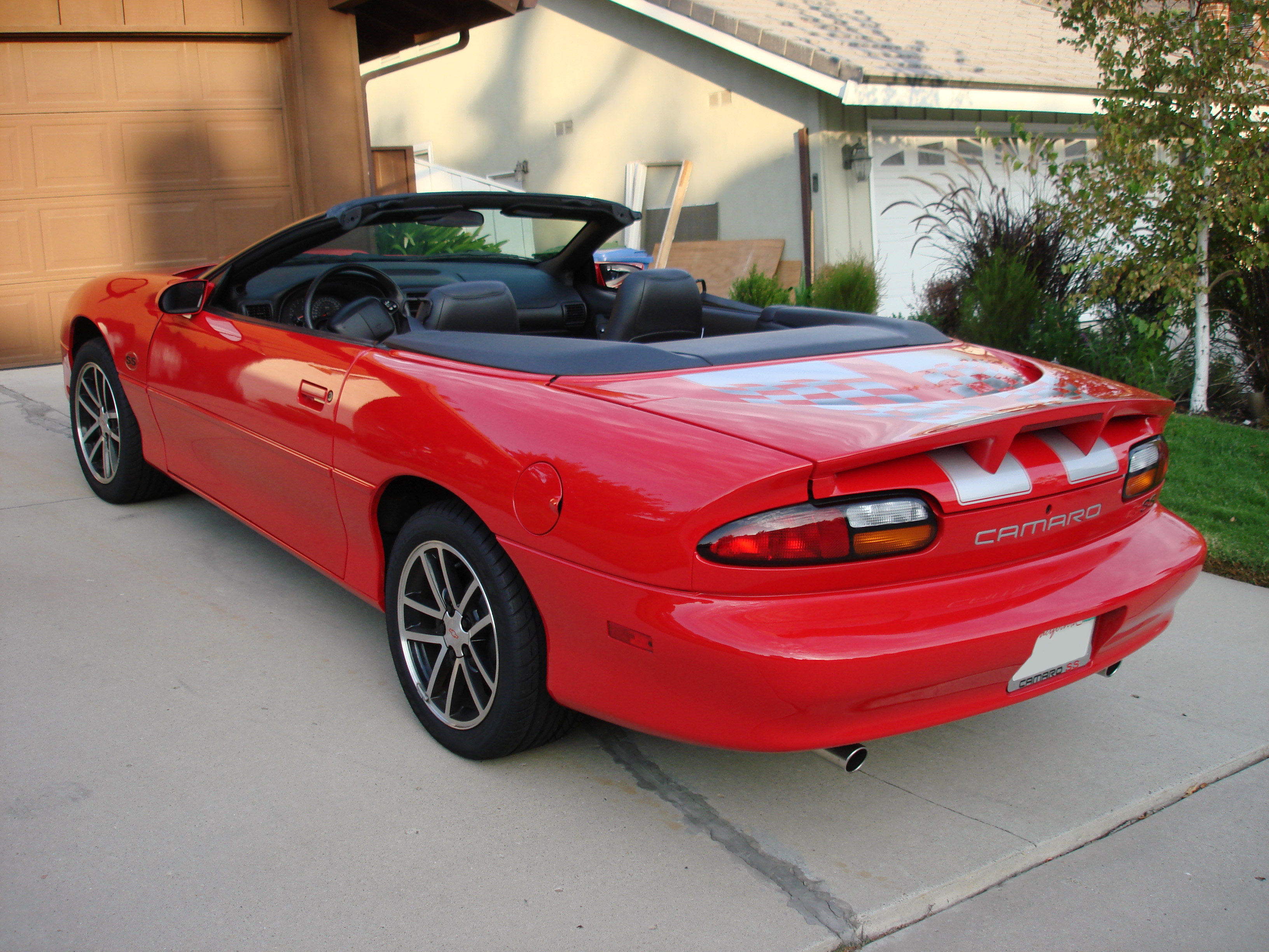 2002 Chevrolet Camaro SS 35th Anniversary edition. Camera used was a Sony Cyber-shot DSC-W100.